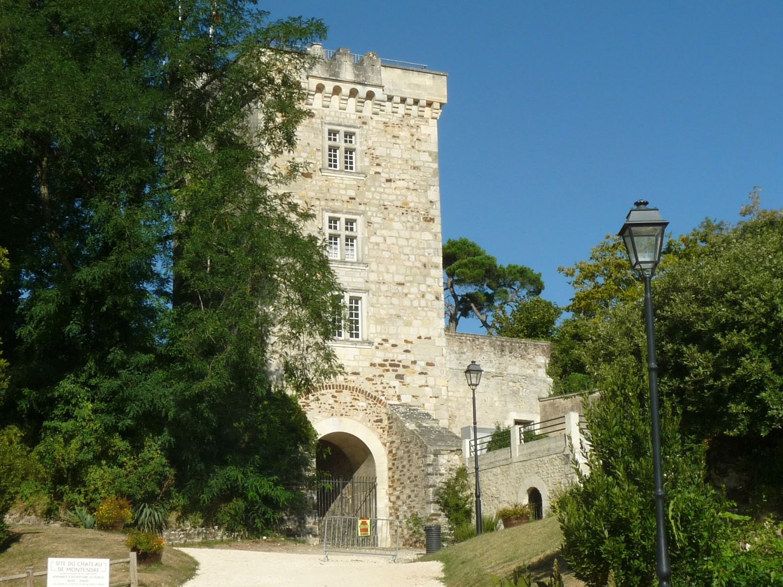 castle of Montendre, Charente-Maritime, SW France